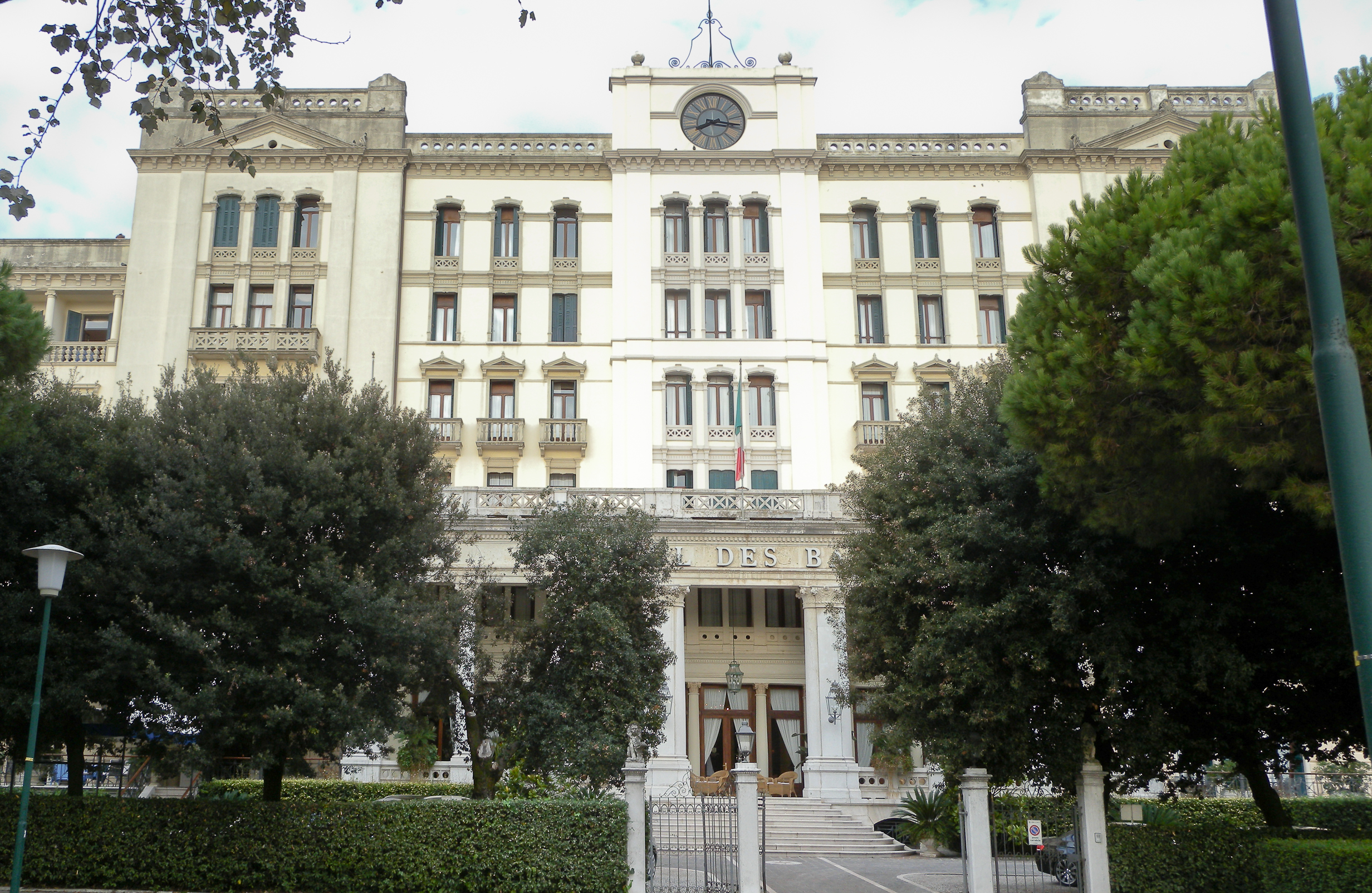 Hotel des Bains on Lido di Venezia